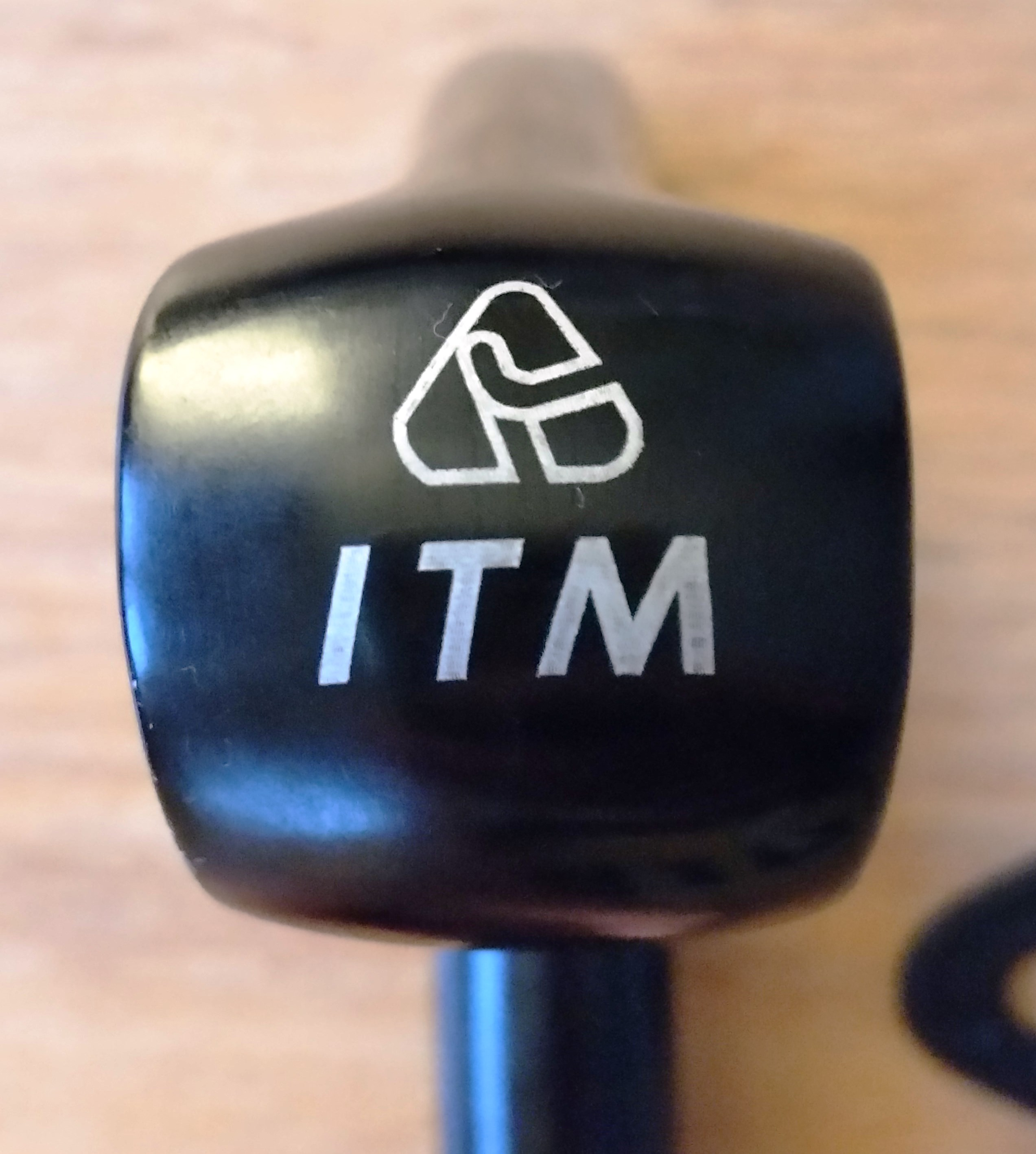 ITM Logo 90's